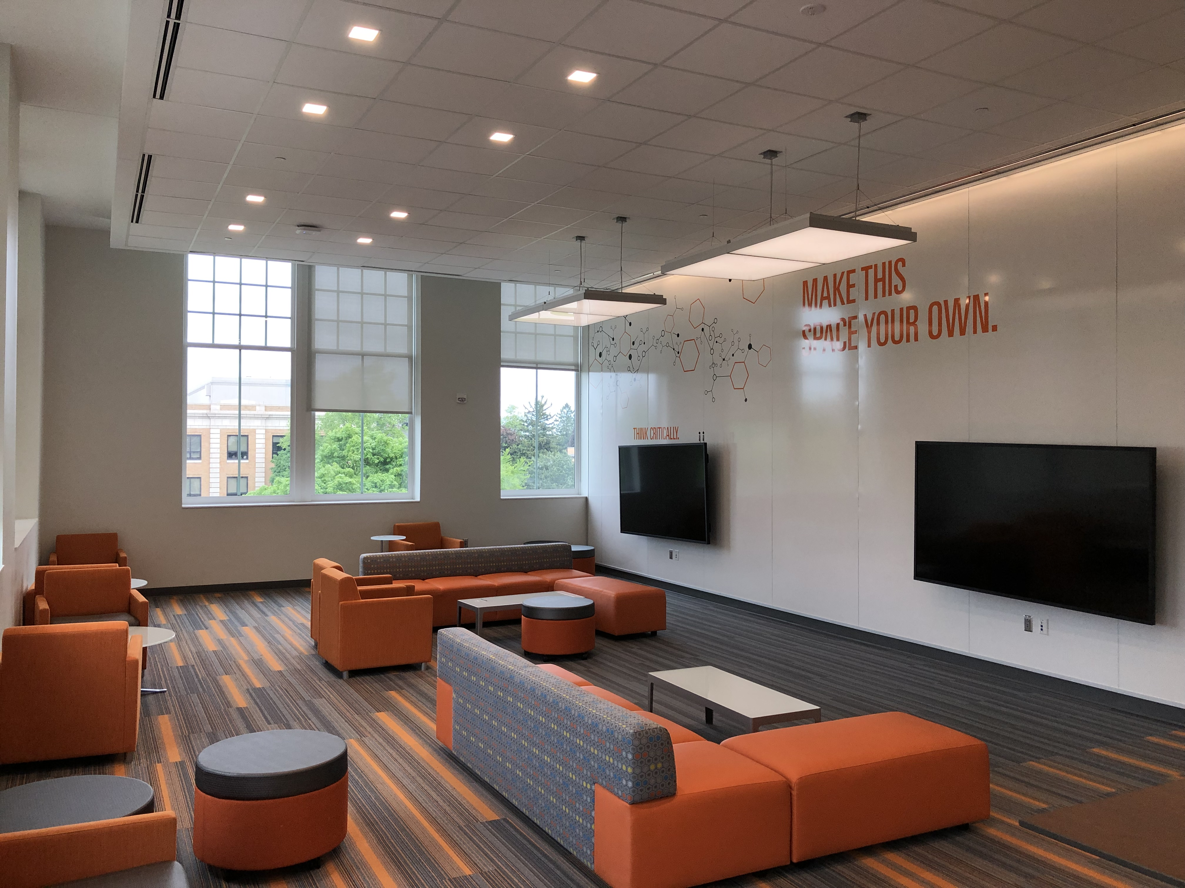 Moseley Hall Collaboration Space